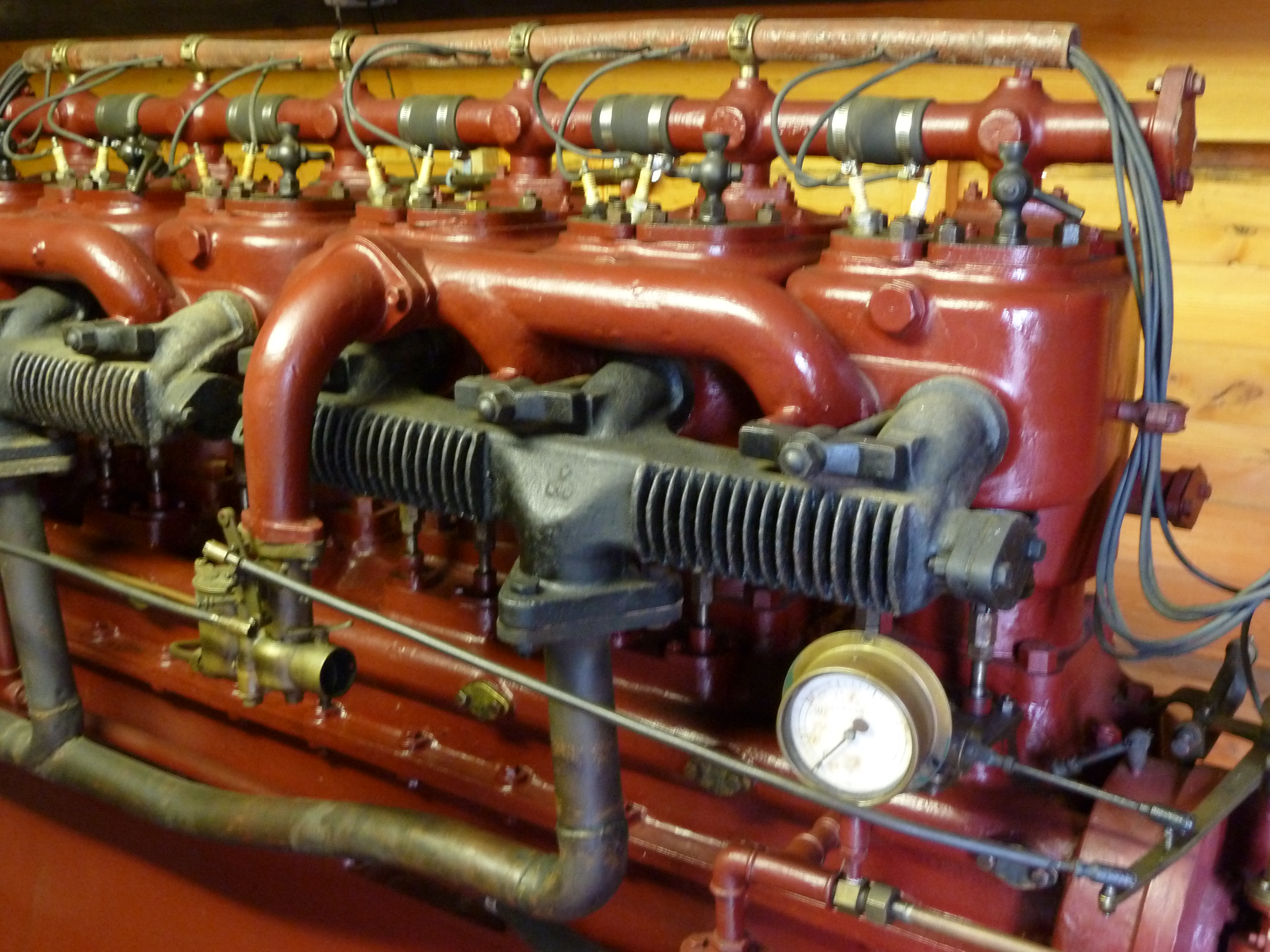 Inlet and exhaust mainfolds. The vertically ribbed exhaust manifold is a distinctive Pelapone feature. 1925 Pelapone PD6, 17 litre 6 cylinder, petrol engine-generator set, ex a standby generator at Shrewsbury Hospital Now on display at the Internal Fire museum.